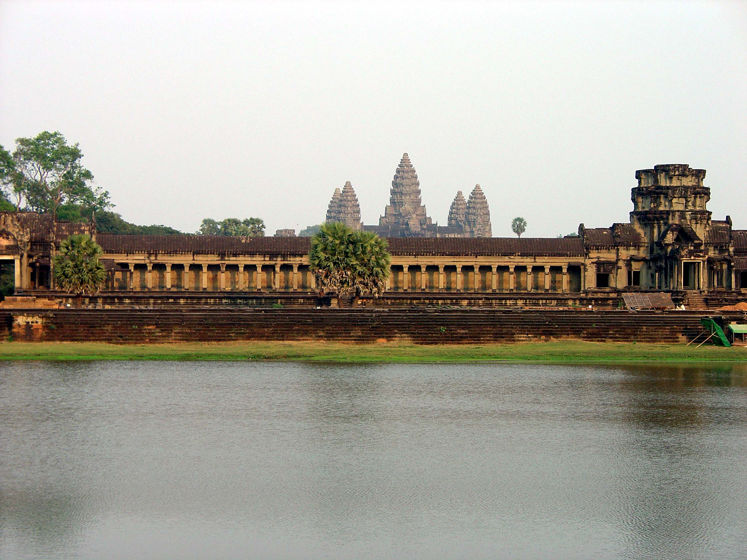 This photo was taken in the afternoon, looking east across the moat towards the outer enclosure that defines the boundaries of the old city. The temple with its five towers can be seen in the distance, far behind the city wall.